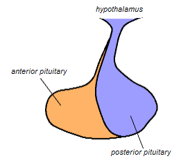 Pituitary gland illustration by Diberri.